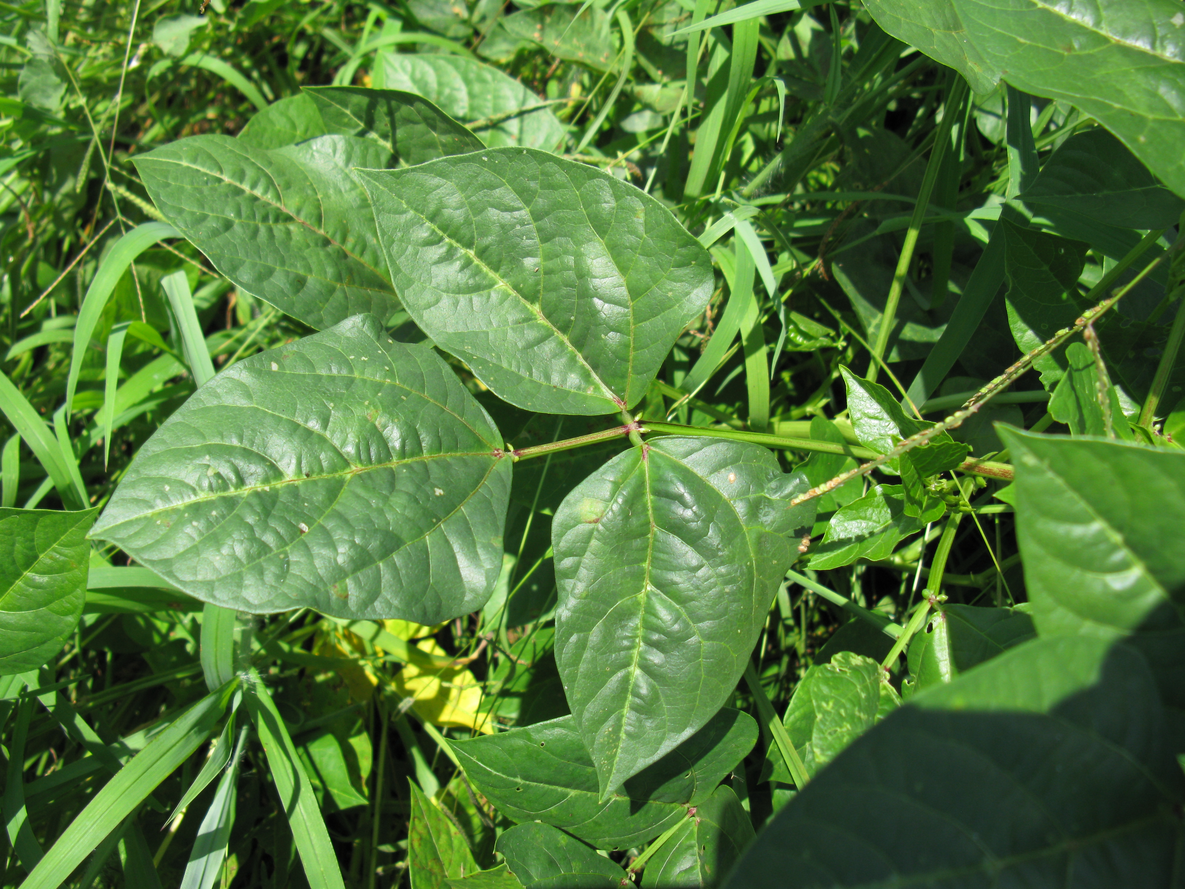 Leaves have 3 large hairless leaflets. The central leaflet is symmetrical and has a longer stalk than the lateral leaflets. The lateral leaflets are opposite and asymmetrical.